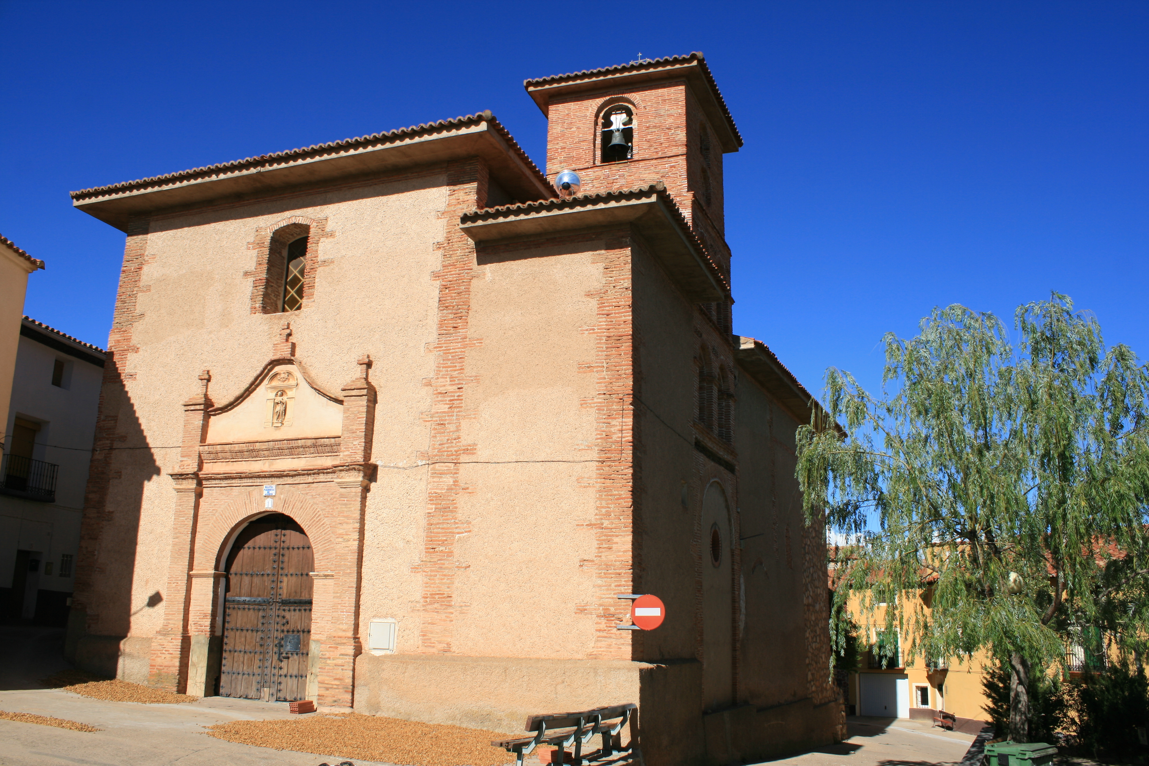 Church of the Assumption, Acered, Zaragoza, Spain